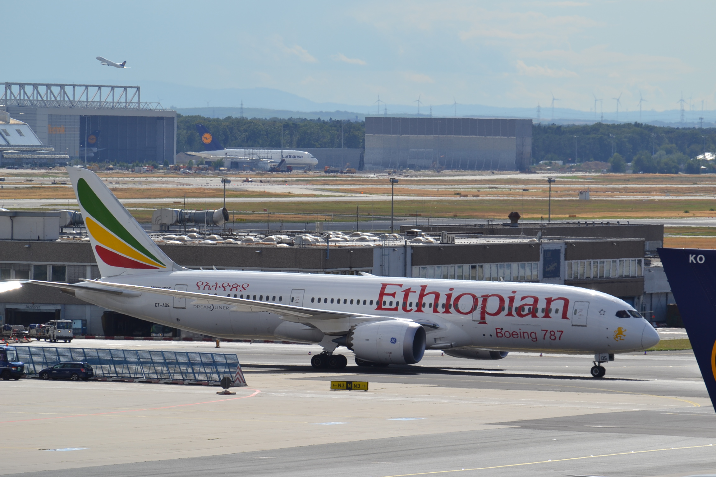 Boeing787 of Ethiopian Airlines at Frankfurt-FRA,Germany,19/08/13.